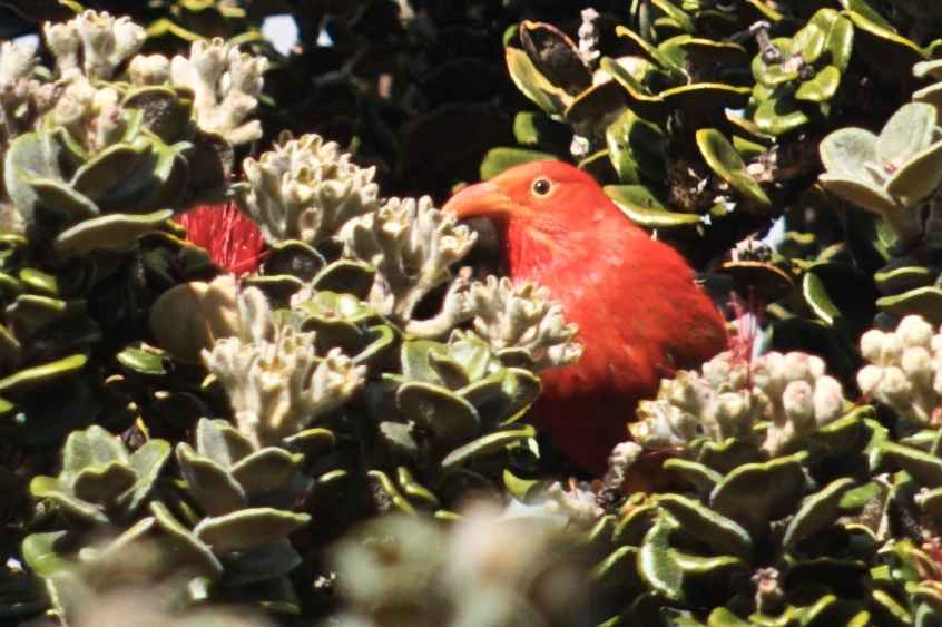 'i'iwi on the ohia tree a few feet from the bird lookout point on the Hosmer Grove trail.